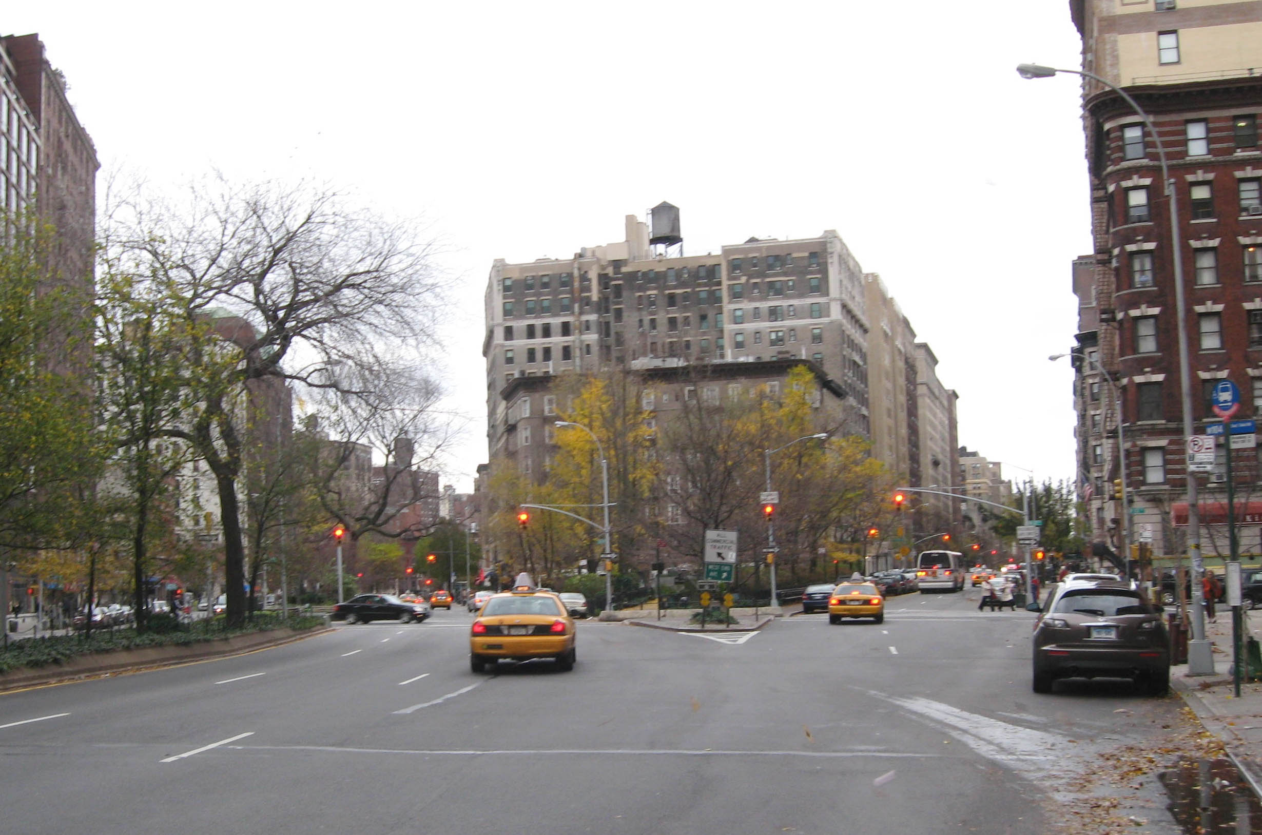 Looking south at park and divergence of West End Avenue from Broadway at 107th Street on a cloudy afternoon